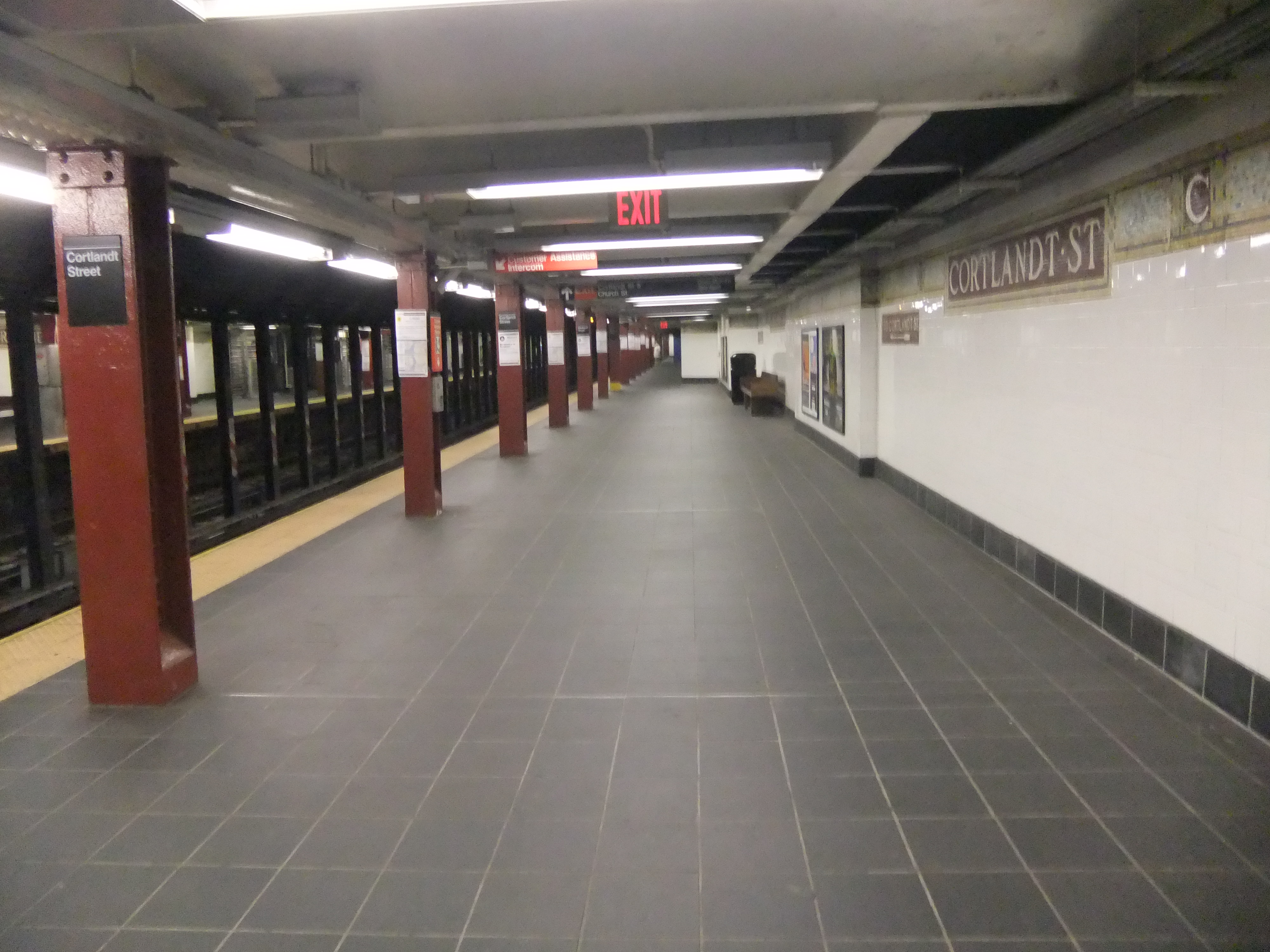 Whitehall Street bound platform at Cortlandt Street (R).